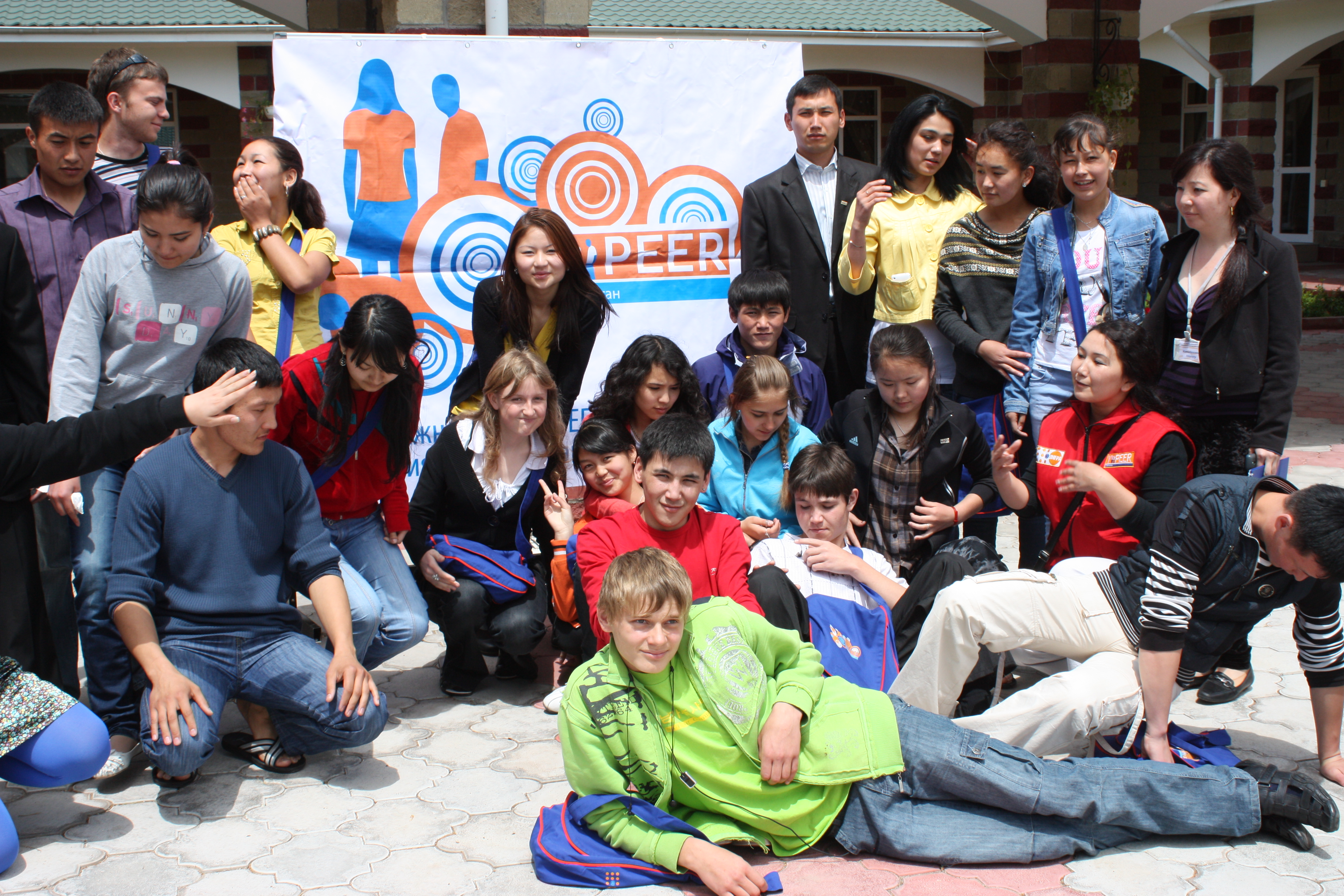 This is a photo from Y-PEER Kyrgyzstan`s peer education training,which took place in May,2010.